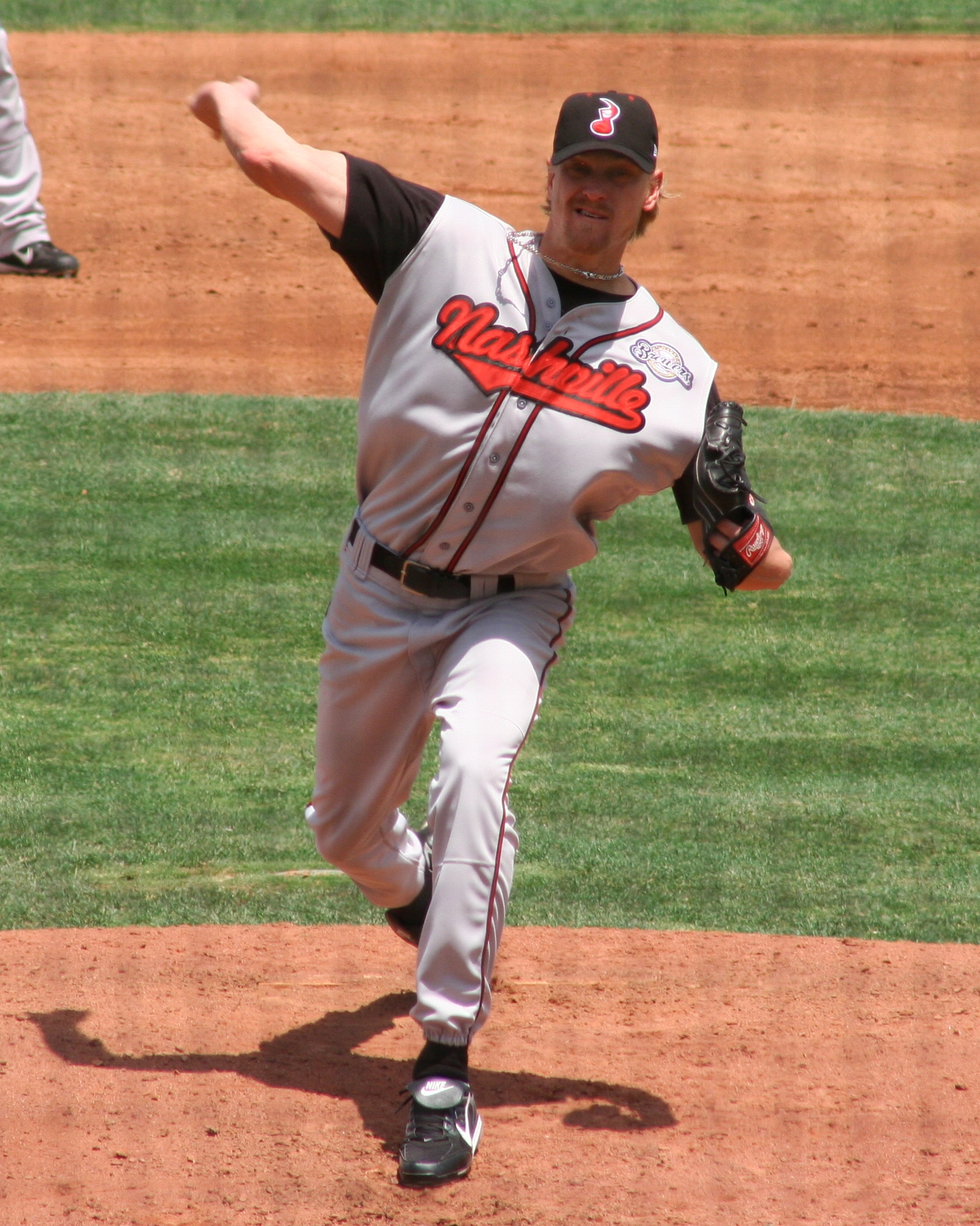 Jeff Weaver, a pitcher for the minor league Nashville Sounds, shown in mid-pitching motion during a game at Cashman Field on May 11, 2008